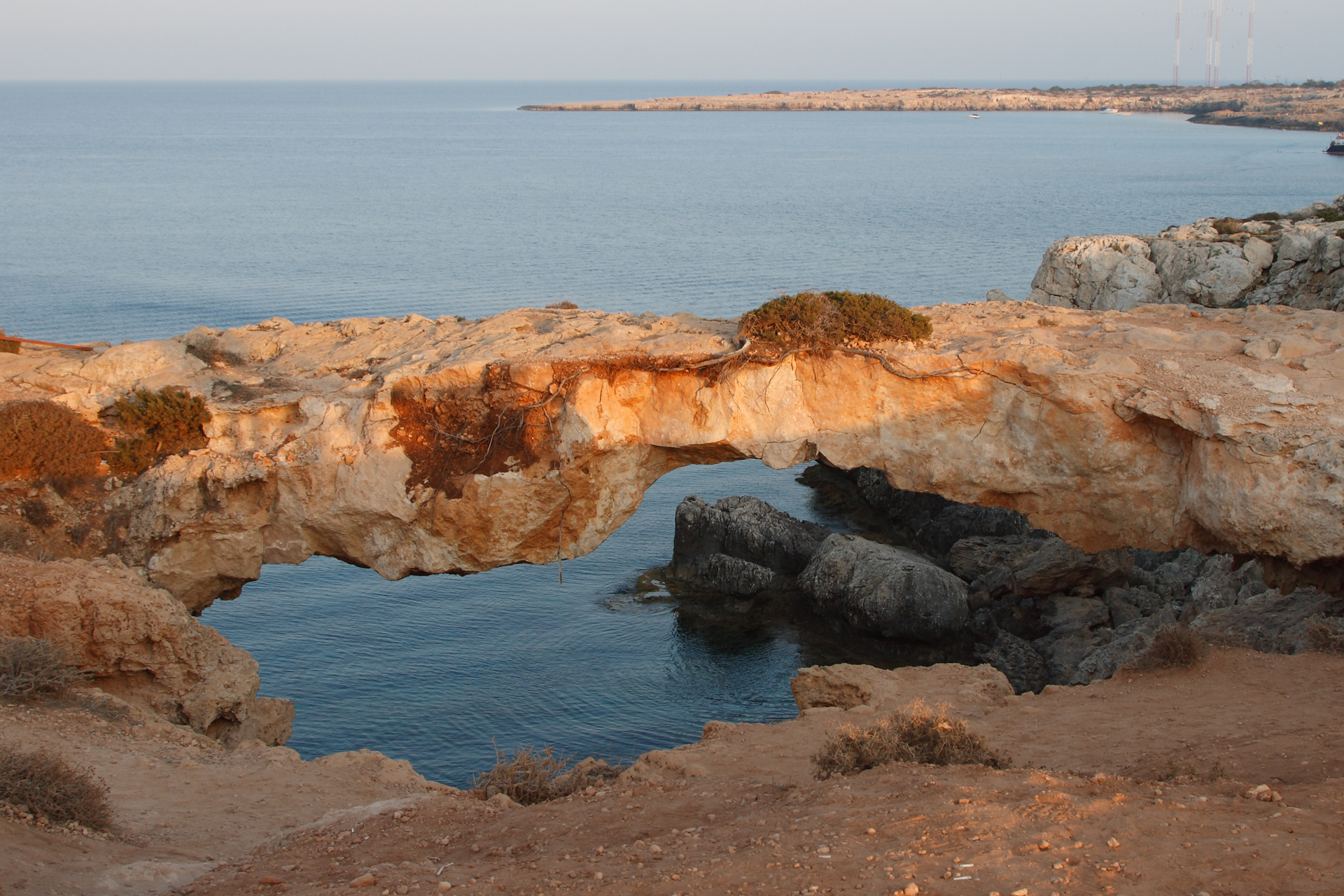 Natural Bridge near Cape Greco, Cyprus